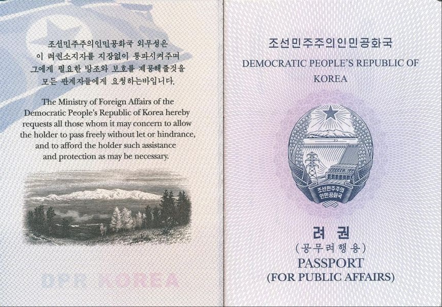 Info Page of the DPRK E-Passport for Public Affairs.